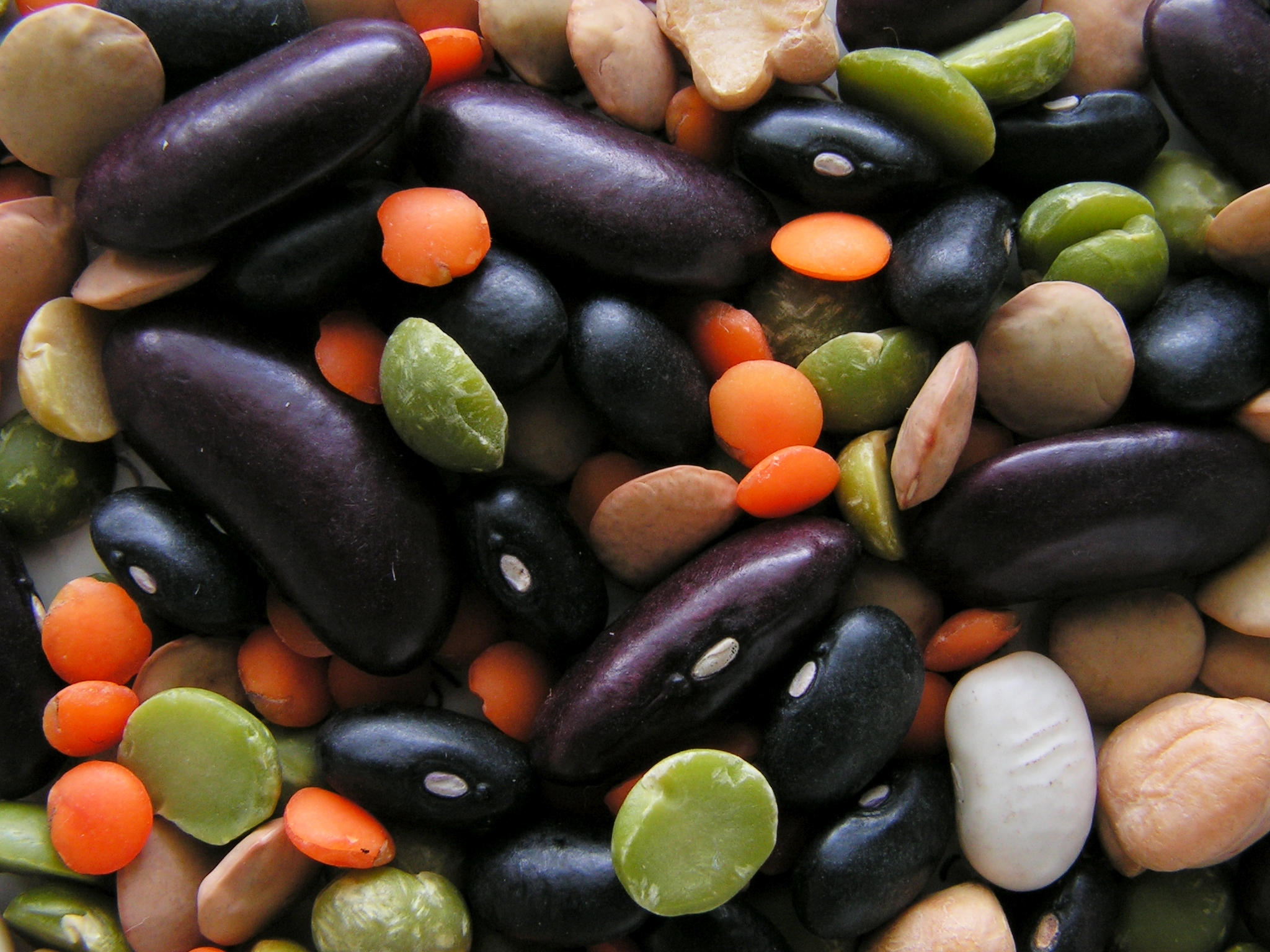 The mixed seeds of Fabaceae: Cicer arietinum, Lens culinaris (orange and brown), Phaseolus vulgaris (black, violet and white), Pisum sativum